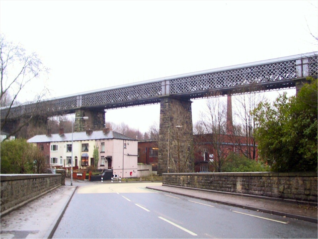 Darcy Lever. This railway bridge dominates the skyline in the valley at Darcy Lever.